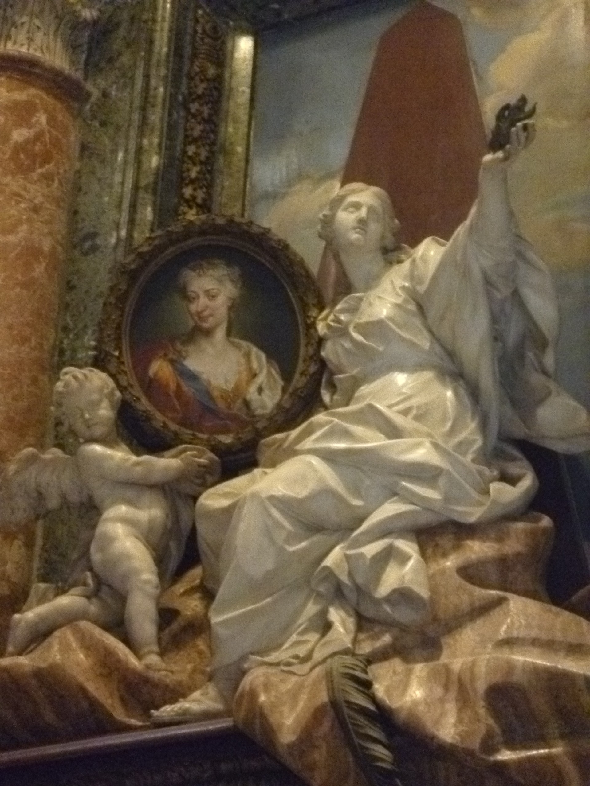 Maria Clementina Sobieski Memorial, St. Peter's Basilica, Rome